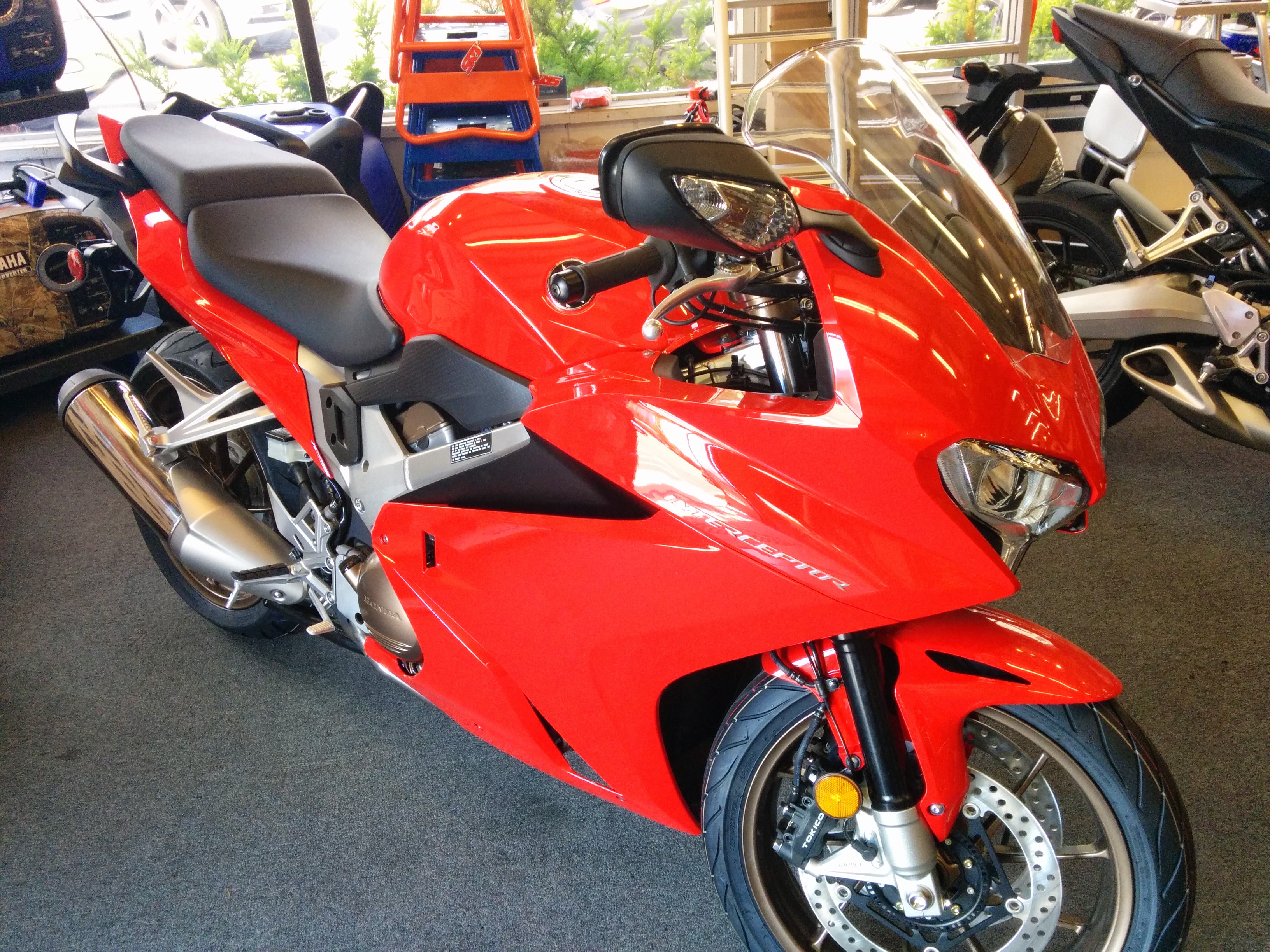 2014 Honda interceptor in showroom